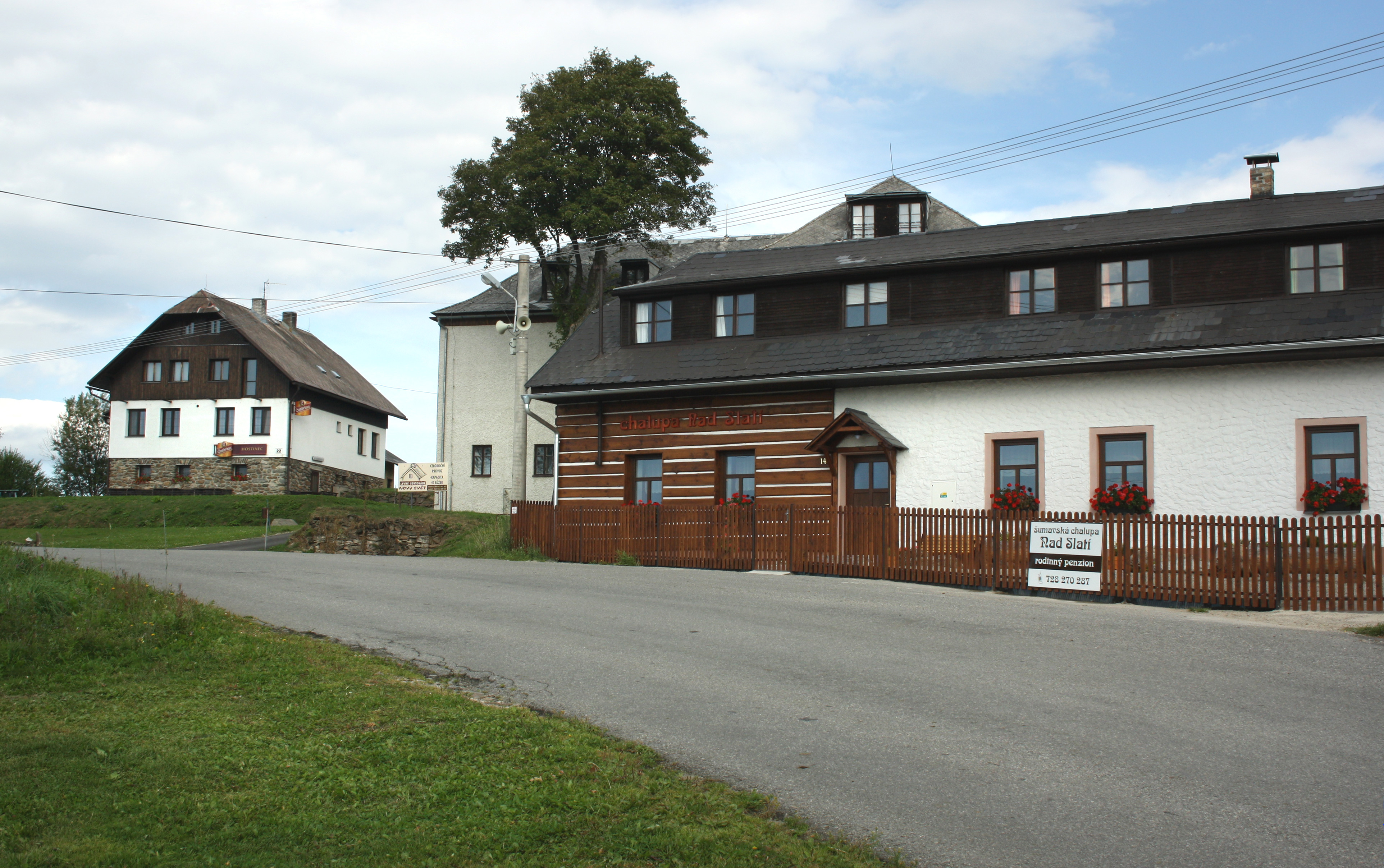 Nový Svět, part of Borová Lada village, Czech Republic